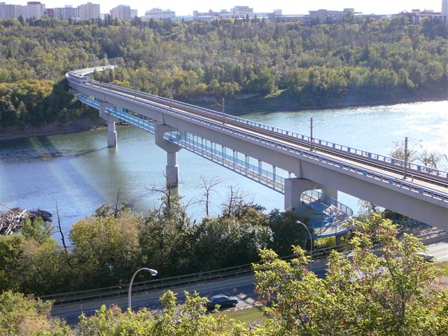 I tool this picture myself on September 13, 2007